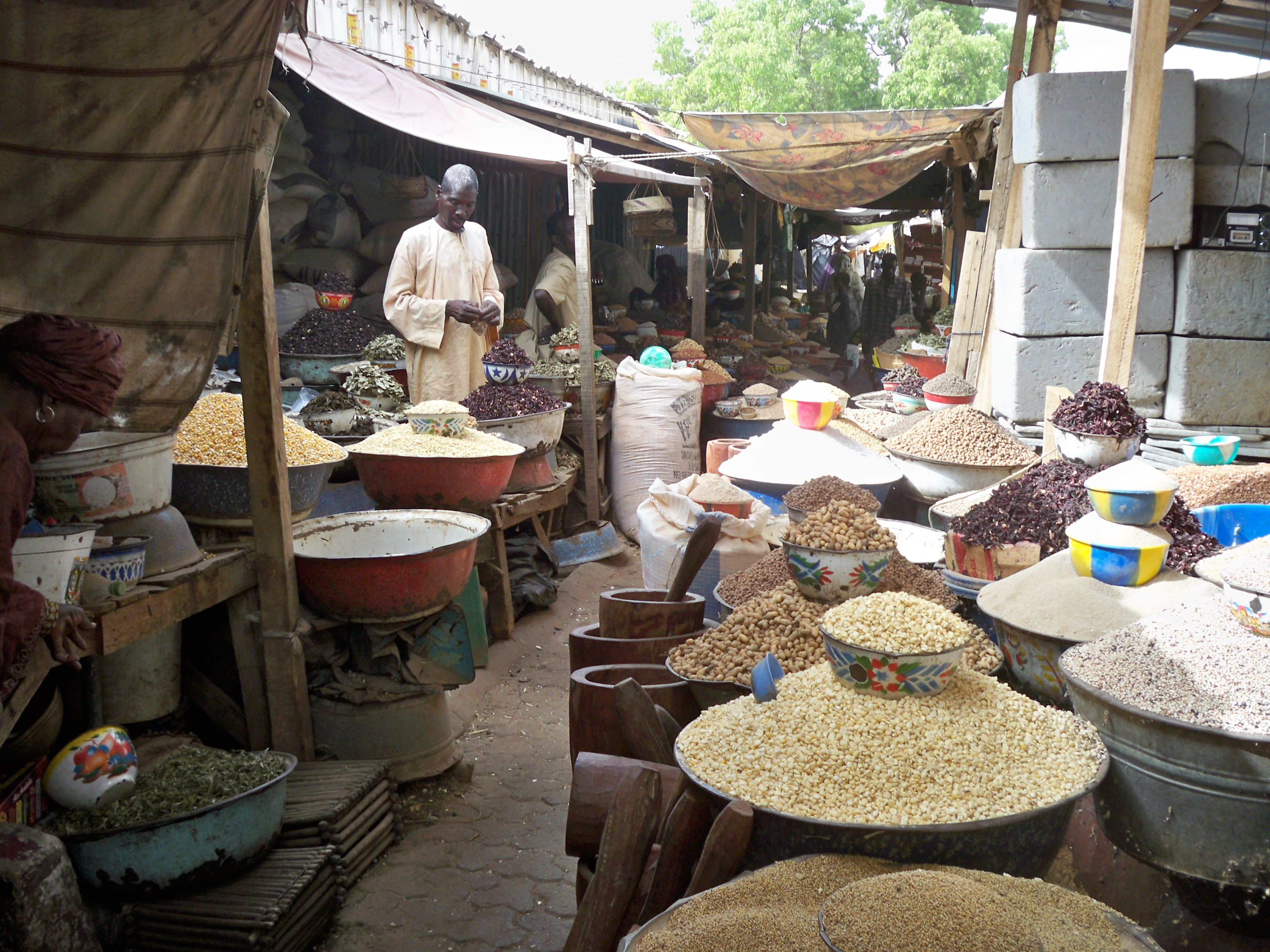 Inside view from Niamey "Petit Marché"